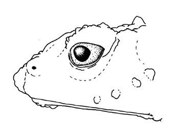 Head shape in lateral view of Osornophryne guacamayo female, QCAZ 26047.